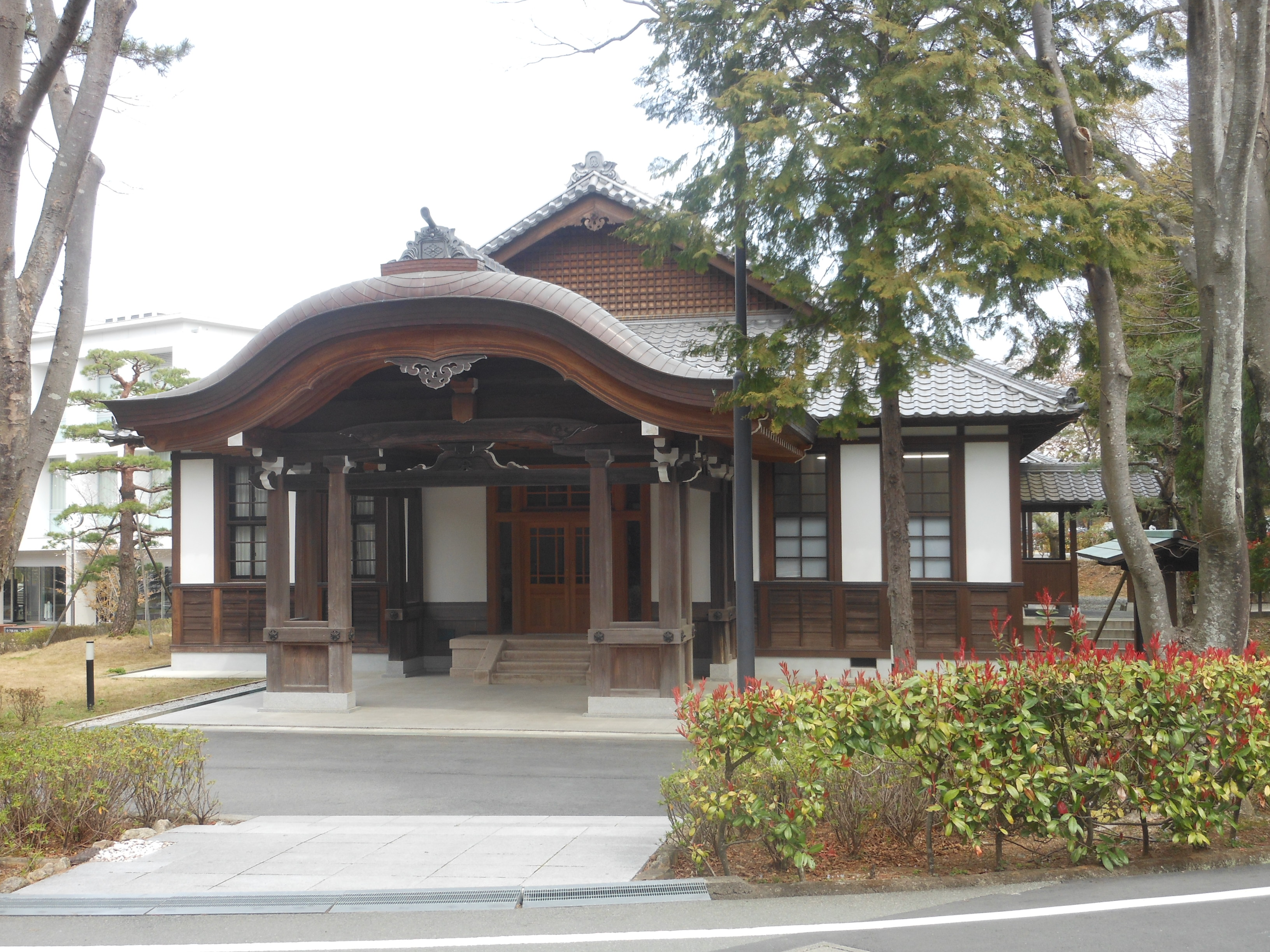 This is in Ise,Mie,Japan.